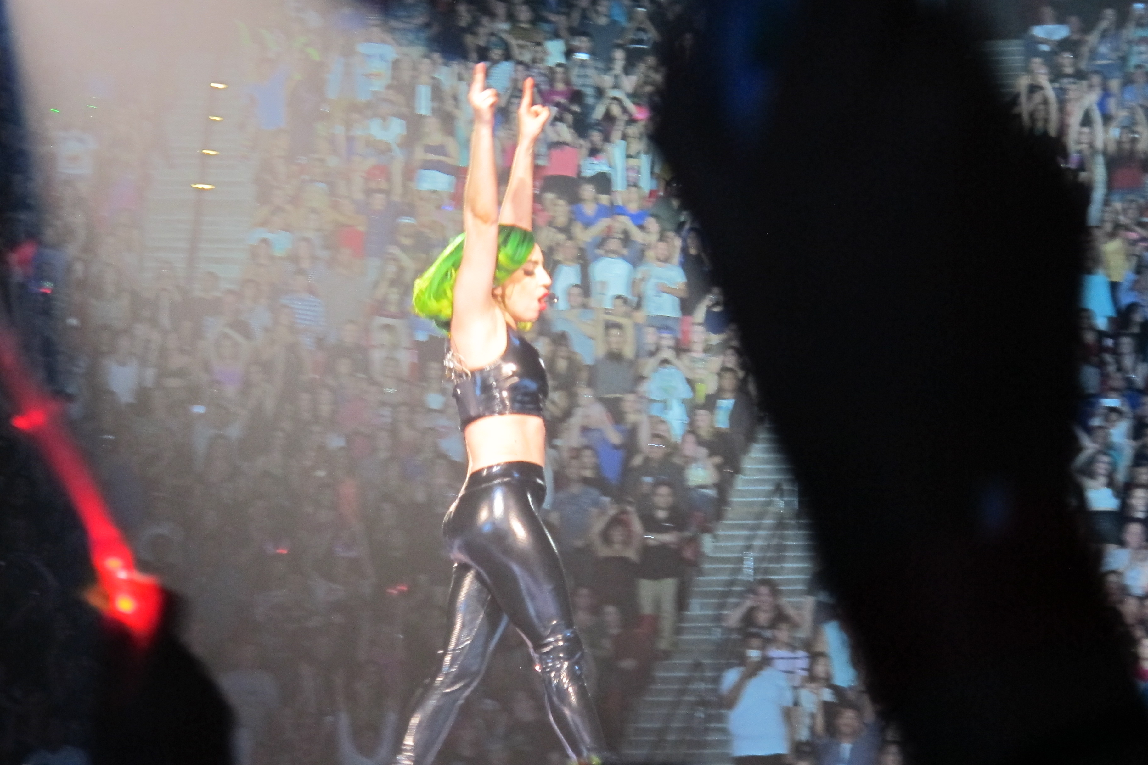 IMG_8290 Lady Gaga performing at ArtRave: The Artpop Ball of San Diego